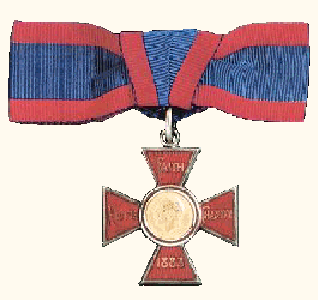 Royal Red Cross medal Image sourced from 'Medals of the World' website: Permission given by Megan Robertson to User:PalawanOz on 22 Apr 2007 for the use of this image in Wikipedia articles